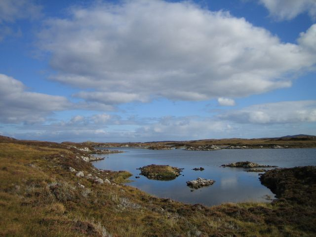 Loch Shiurabhagh at Benbecula, Outer Hebrides, Scotland